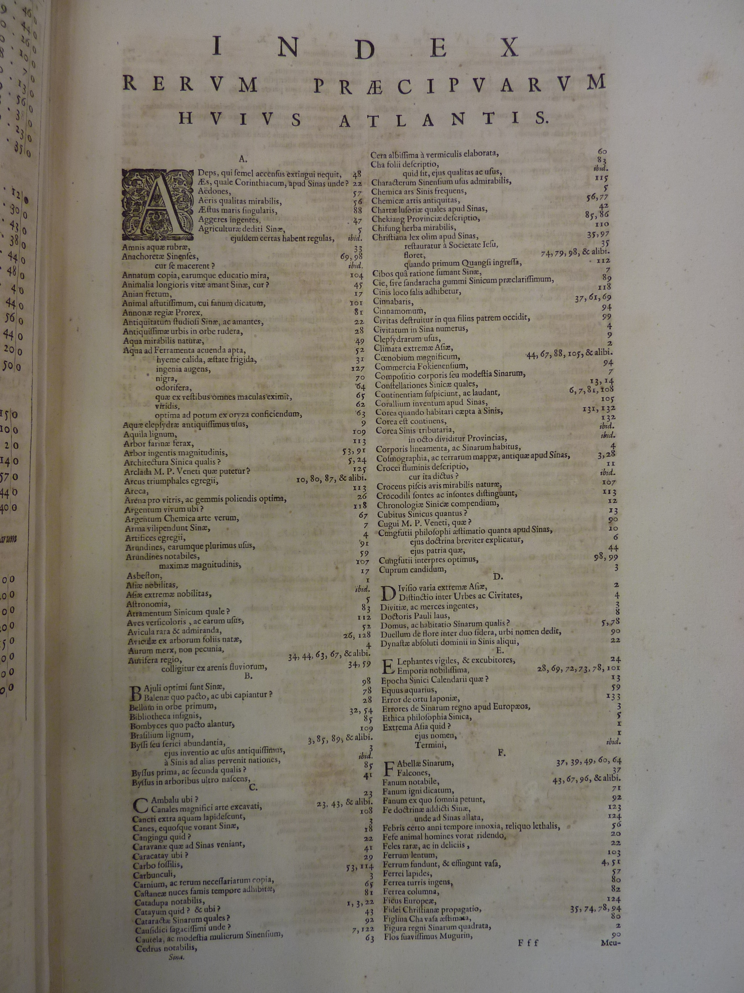 Novus Atlas Sinensis by Martino Martini; published in 1655 by Joan Blaeu as part of Volume 10 of his Atlas maior. The first page of the index of Martini's work